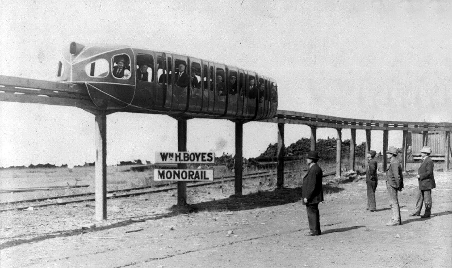 The Boyes monorail. This was likely a non-working mockup, not a working prototype.